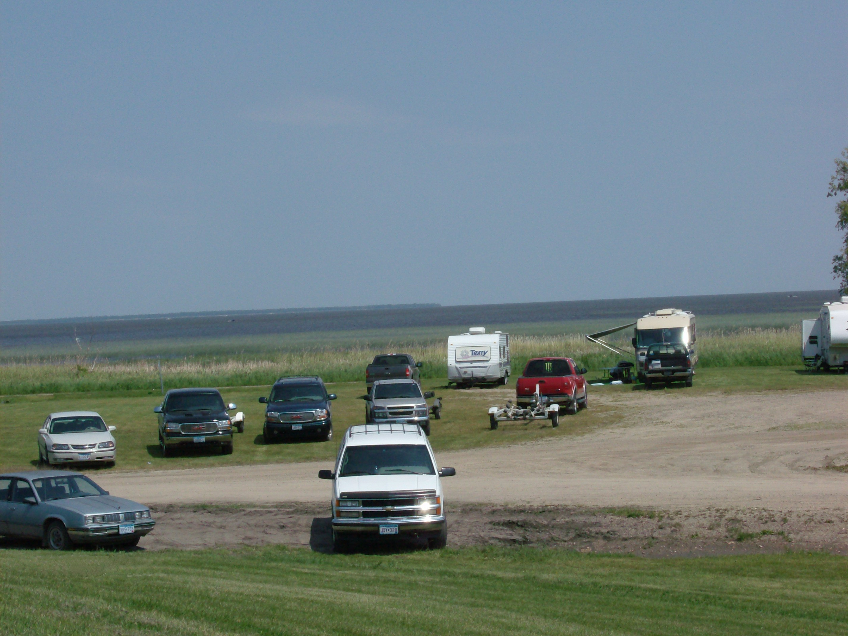 Lake of the Woods as viewed from park in Warroad, MN.